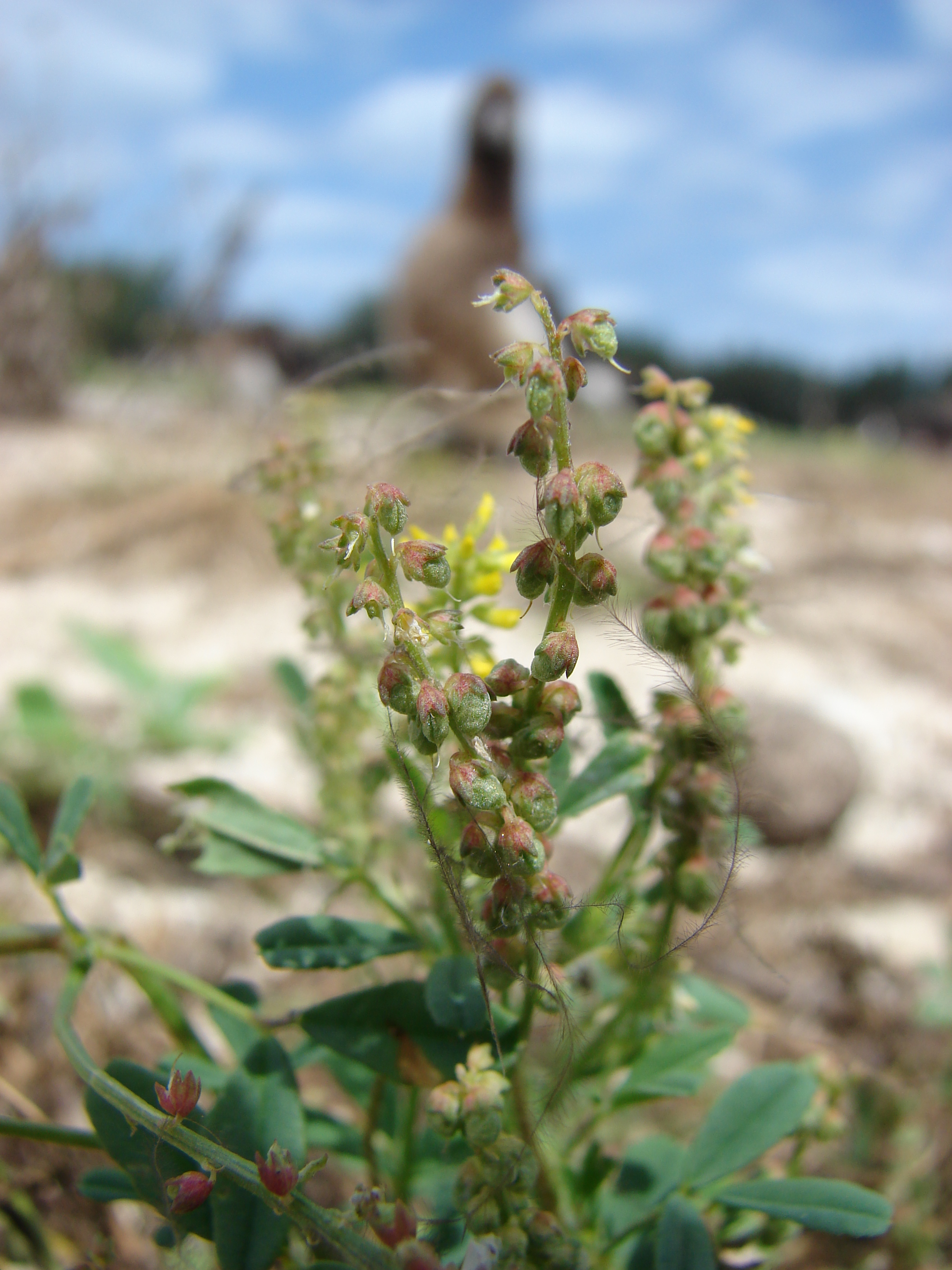 Melilotus indica (fruit). Location: Midway Atoll, Command Post Sand Island